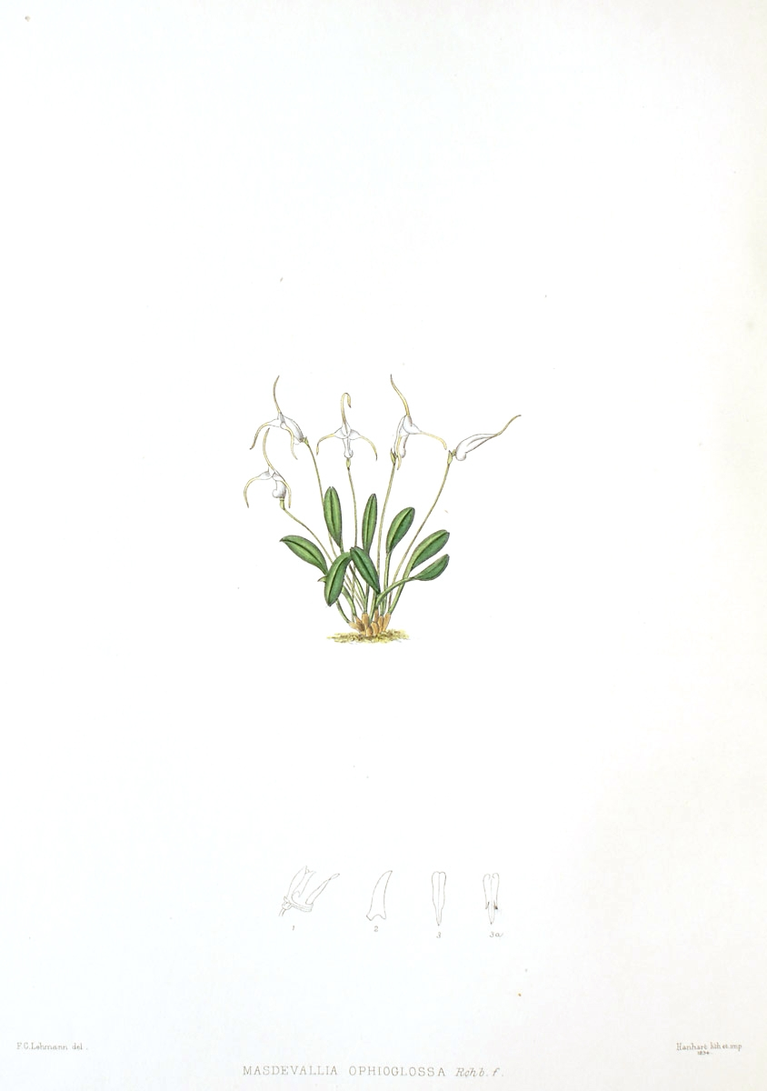 Illustration of Masdevallia ophioglossa from Florence H. Woolward: The Genus Masdevallia